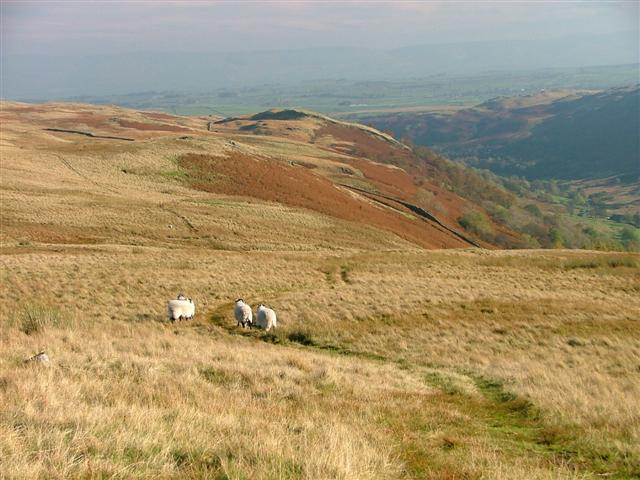 Old Corpse Road. Before the Holy Trinity church was built in Mardale in 1736, the dead had to be carried by horseback along the Corpse Road for burial at Shap.